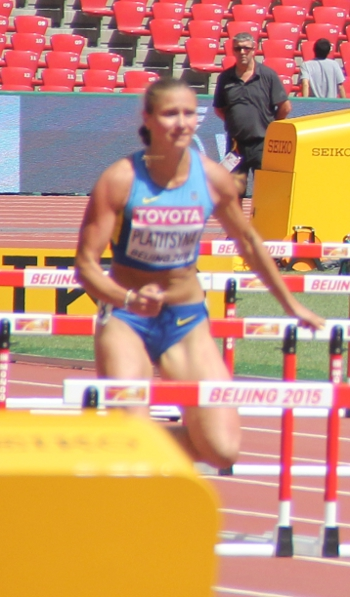 Hanna Platitsyna at the 2015 World Championships in Athletics